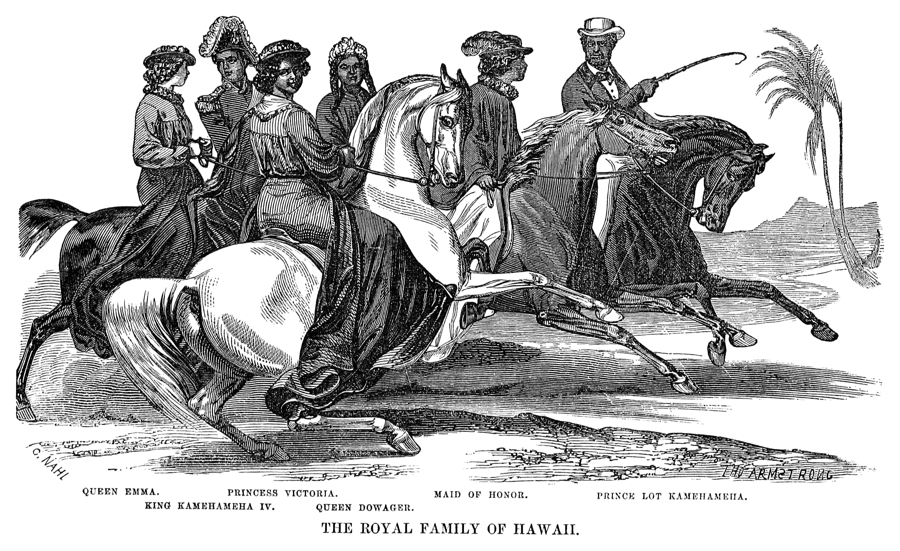 The Royal Family of Hawaii. Left to right: Queen Emma, King Kamehameha IV, Princess Victoria, Queen Dowager, Maid of Honor, and Prince Lot Kamehameha. Lithograph by Thomas Armstrong after an original portrait by Charles Nahl, in the 1856 issue of Hutchings' California Magazine. The original was a life-size oil painting by Charles Nahl exhibited during the Mechanics' Institute Fair in 1857 at San Francisco. In 1858, this painting and Nahl's Emigrants Crossing the Plains were considered the best works in the exhibition. [1][2]